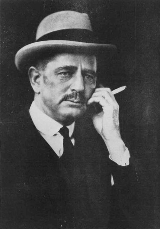 Photo of Gordon Coates taken in 1926.